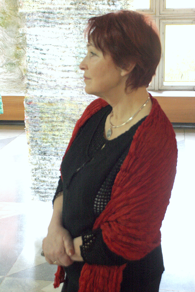 Zinaida Irute Dargiene